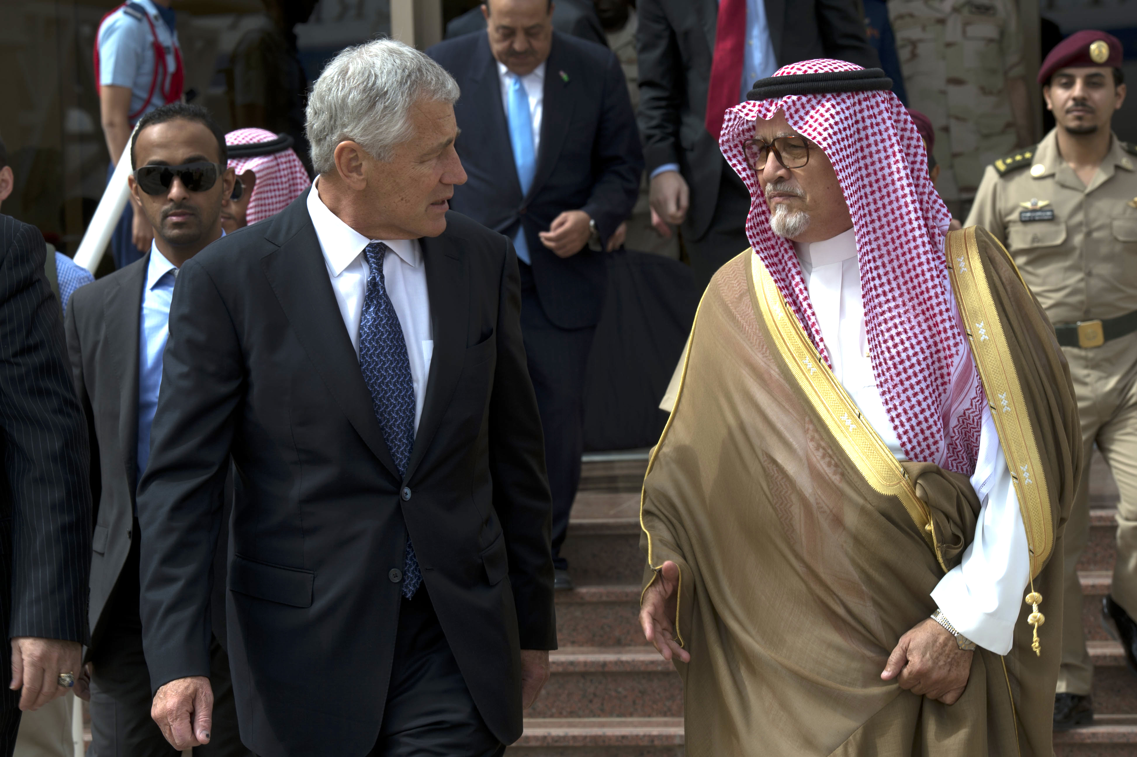 Secretary of Defense Chuck Hagel walks with Saudi Deputy Minister of Defense Prince Fahd bin Abdullah before departing Riyadh, Saudi Arabia, on April 24, 2013. The Kingdom of Saudi Arabia is Hagel's third stop on a six-day trip to the Middle East to meet with defense counterparts.